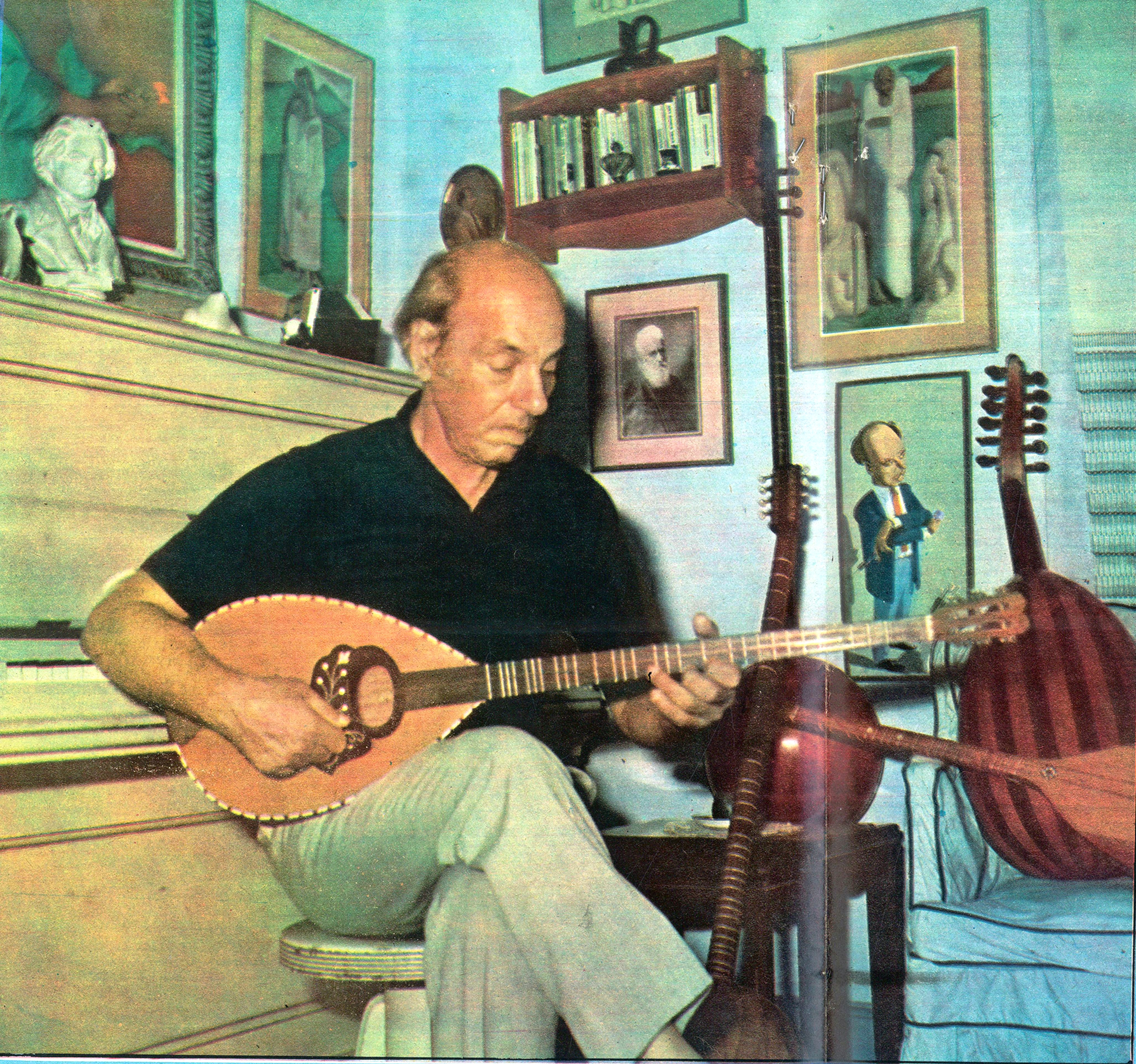 Bicar playing Bouzouki at his home in Zamalek, Cairo